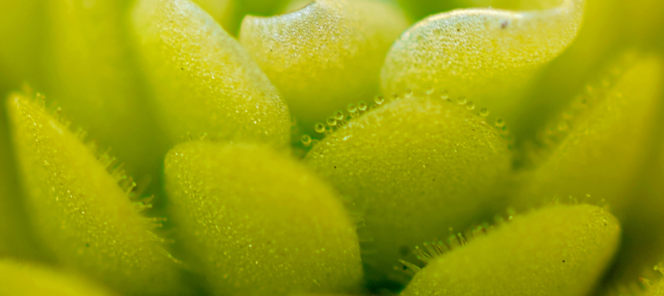 Pinguicula esseriana